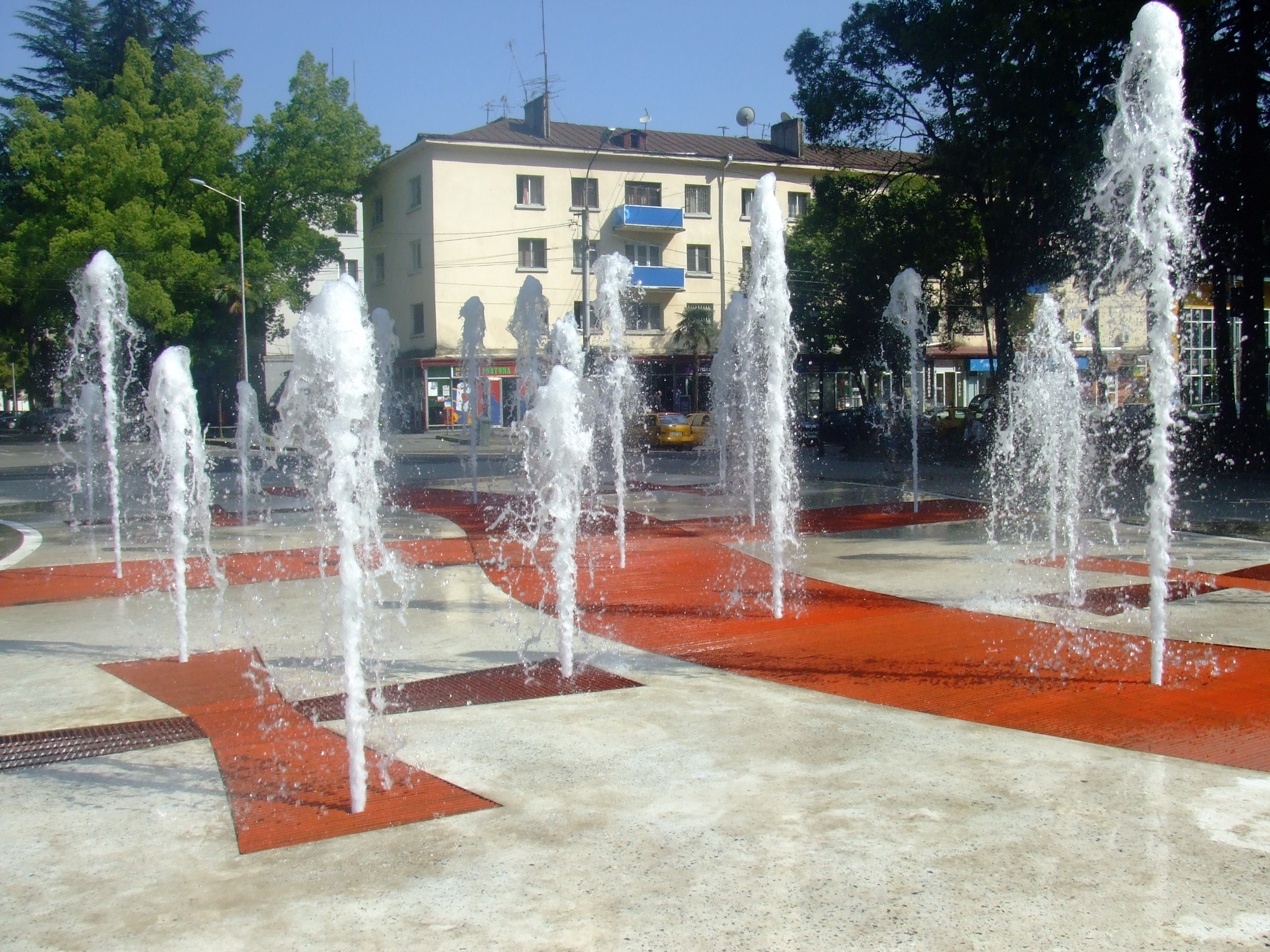 Park of Culture and Rest in Zugdidi